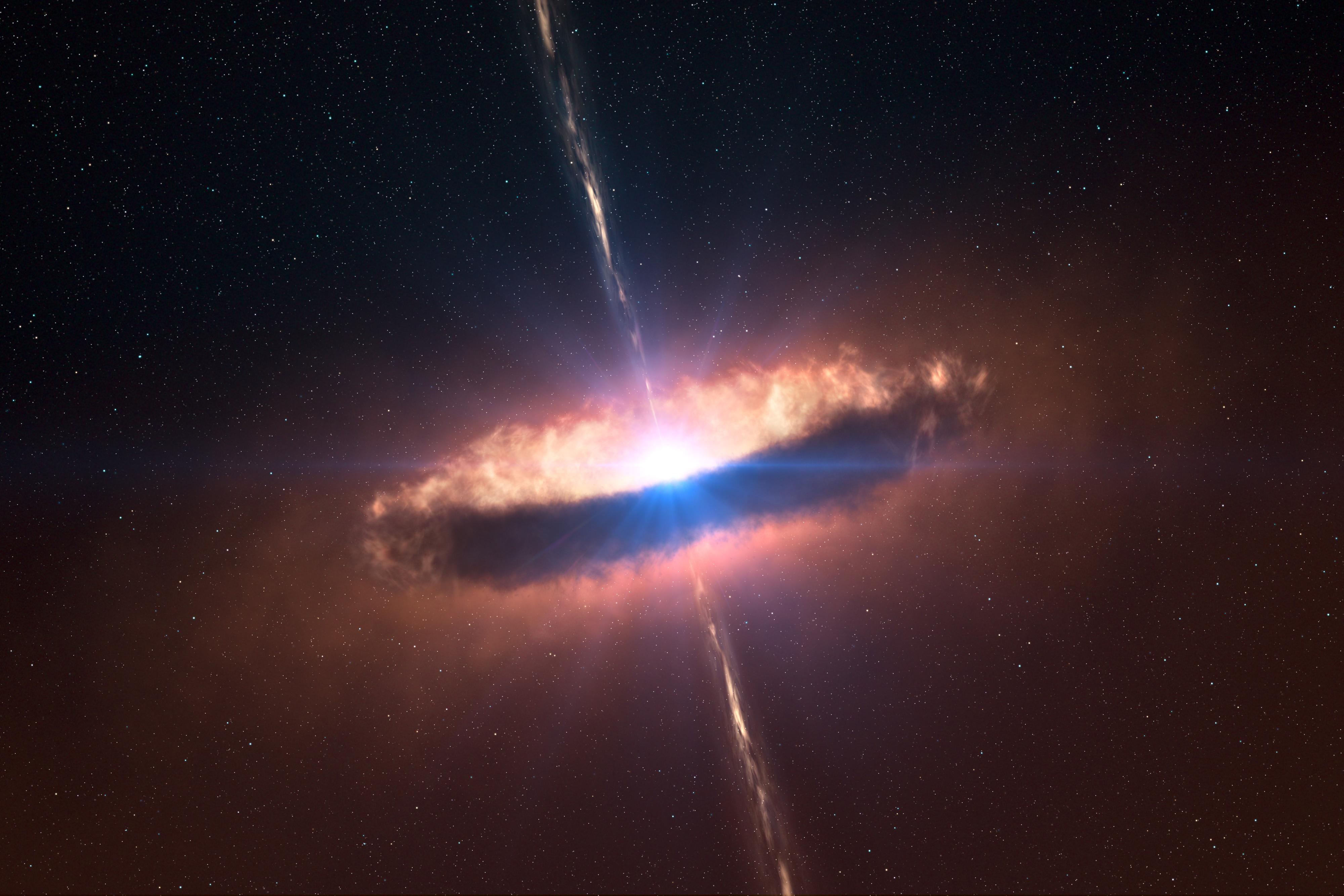 Disk Around a Massive Baby Star (Artist's Concept) Astronomers have obtained the first clear look at a dusty disk closely encircling a massive baby star, providing direct evidence that massive stars do form in the same way as their smaller brethren -- and closing an enduring debate. This artist's concept shows what such a massive disk might look like. The flared disk extends to about 130 times the Earth–sun distance, and has a mass similar to that of the star, roughly twenty times the sun. The inner parts of the disk are shown to be devoid of dust.